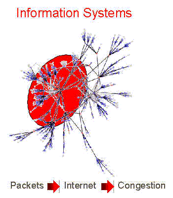 Image extracted 14 May 2007 from the webpage Measurement Science for Complex Information Systems. The web site owner is The National Institute of Standards and Technology